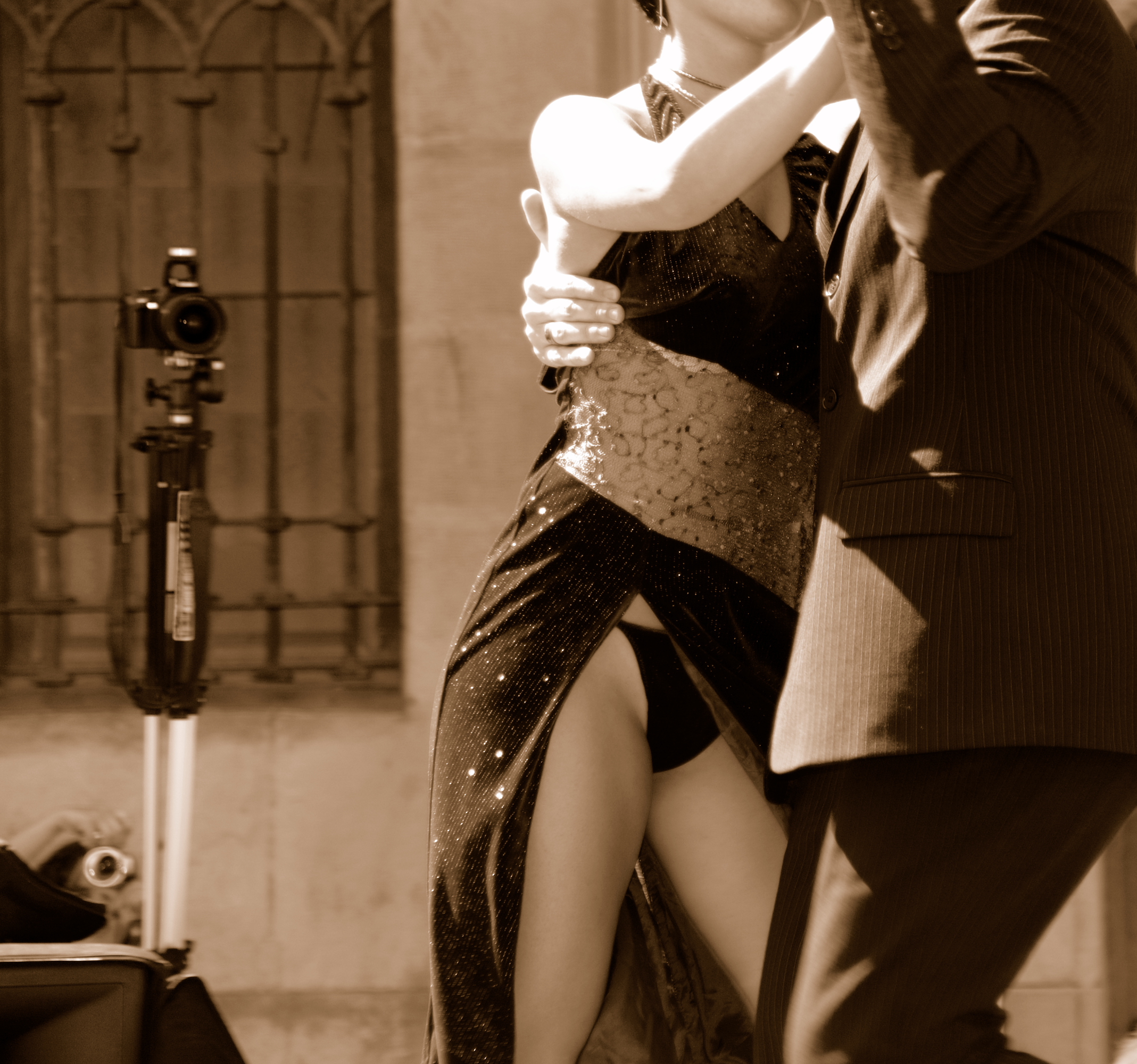 Tango is a very sensual dance... and nobody missed the shot.